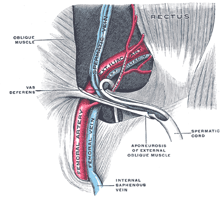 The spermatic cord in the inguinal canal. (Poirier and Charpy.)